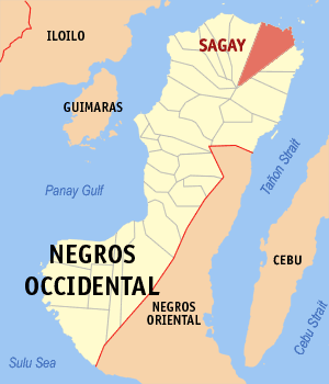 Map of Negros Occidental showing the location of Sagay